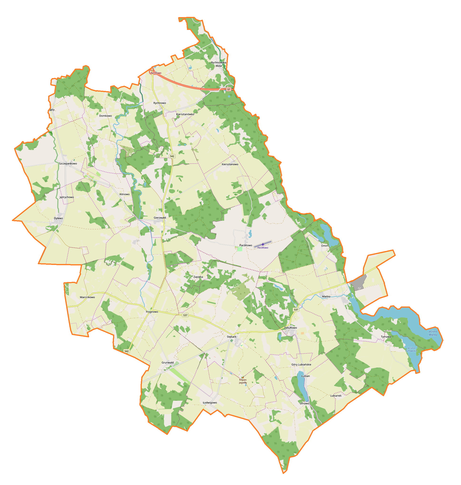 Location map